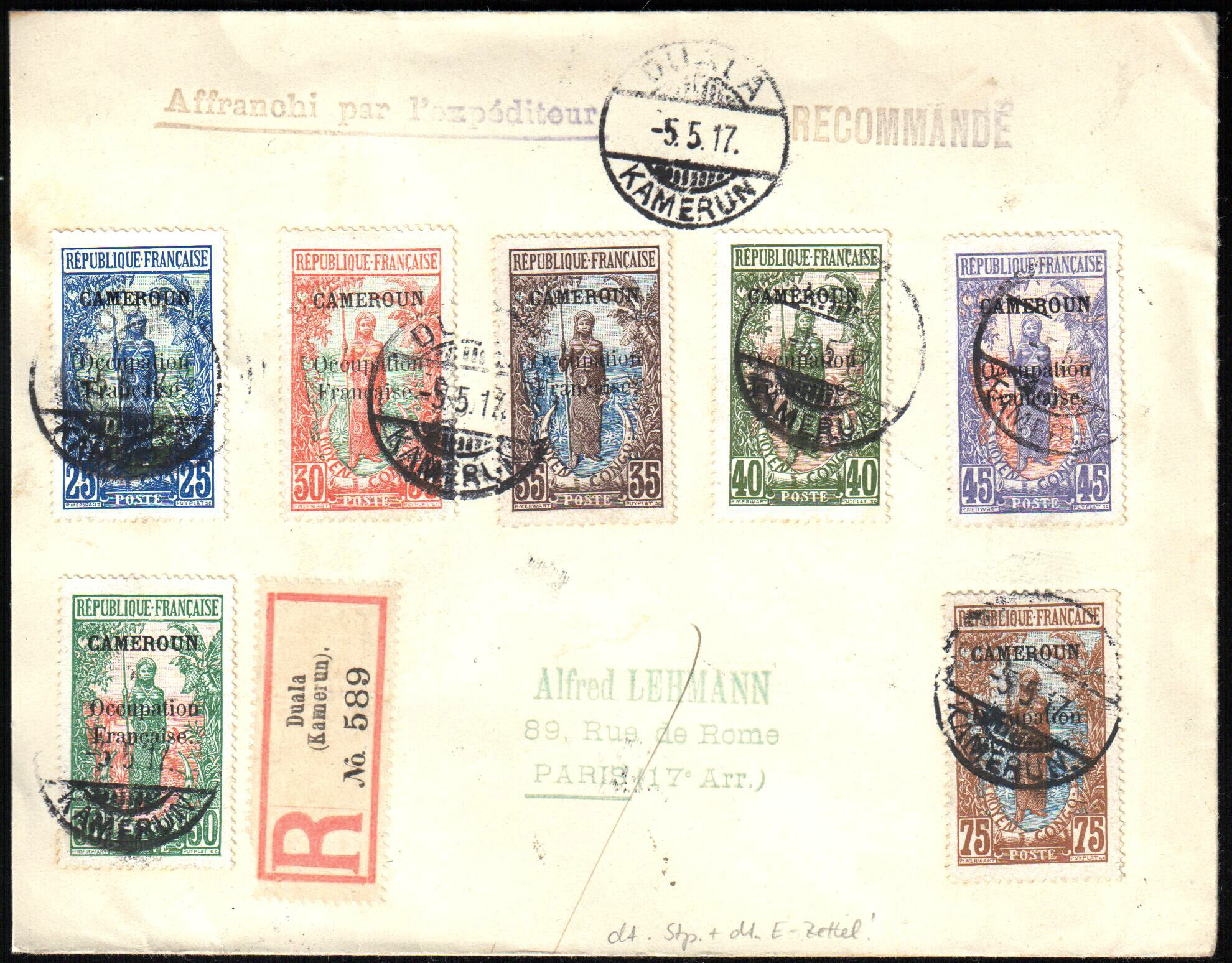 Cameroon 1917-05-05 registered cover sent from Duala to Paris. Postmark and registration label German.